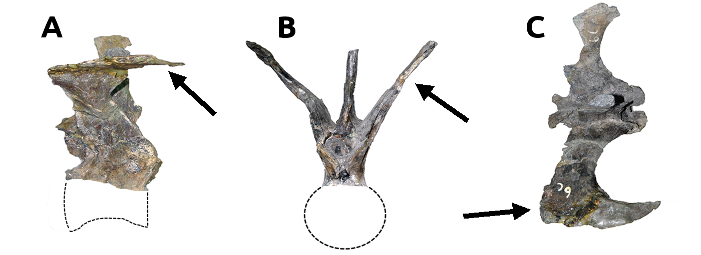 Sixth caudal vertebra of the Carnotaurus sastrei holotype. A: lateral view, B: anterior view, C: dorsal view